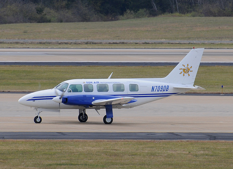 Sun Air International Piper Navajo N7090B at Dulles Airport (IAD/KIAD)